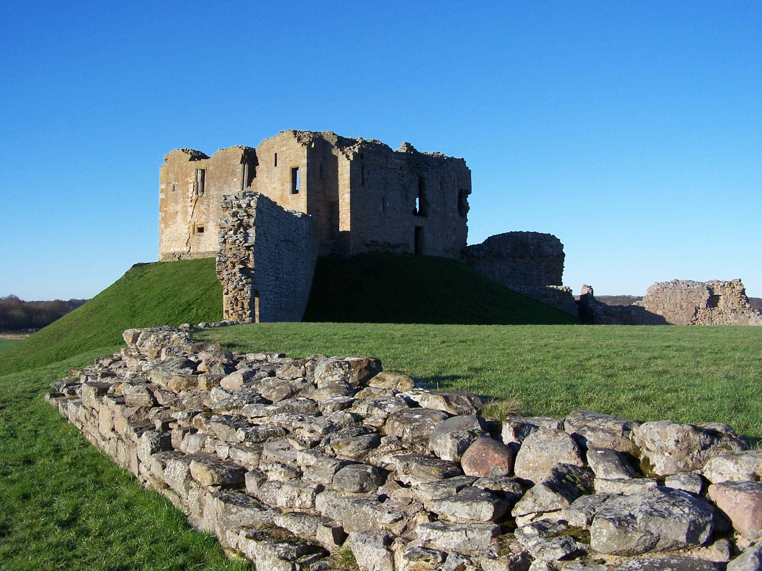 Duffus Castle, Moray, Scotland, by Bill Reid